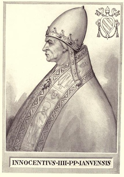 This illustration is from The Lives and Times of the Popes by Chevalier Artaud de Montor, New York: The Catholic Publication Society of America, 1911. It was originally published in 1842.